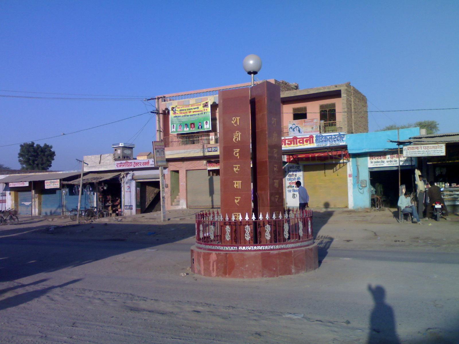 It is taken and uploaded by me(Sivender Singh 9829800543 & ).This photo is about Shaheed Smarak (Martyrs memorial) at Rawla Mandi.It was built in the memory of persons died on 27th October 2011 during farmer's movement in Rawla Mandi. Shemaroo (talk) 03:07, 11 November 2011 (UTC)